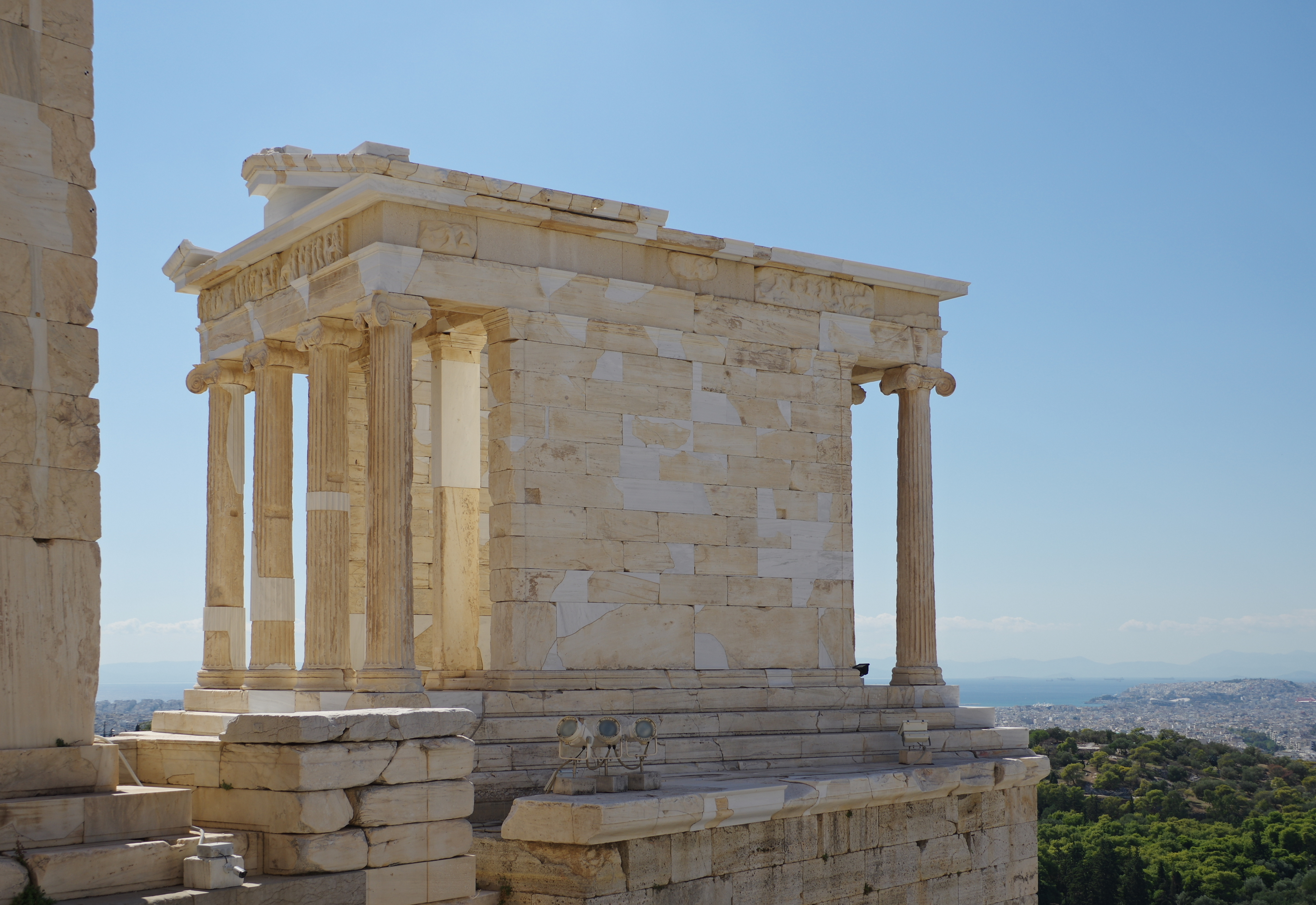 Greece, Athen, Acropolis, Temple of Nike from north east